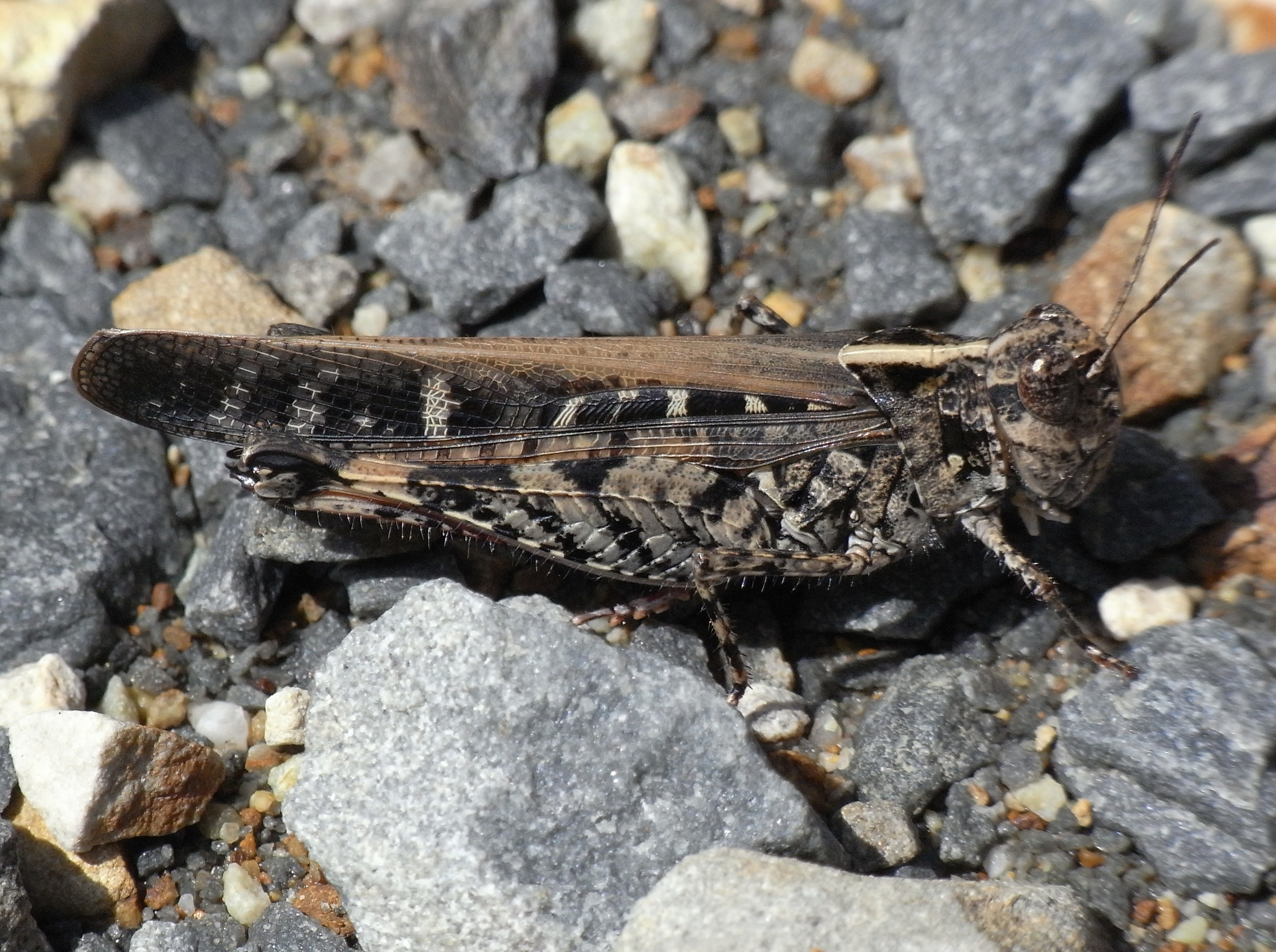 Long-legged bandwing (Heteropternis obscurella) near The Gap, Hat Head National Park, Australia.